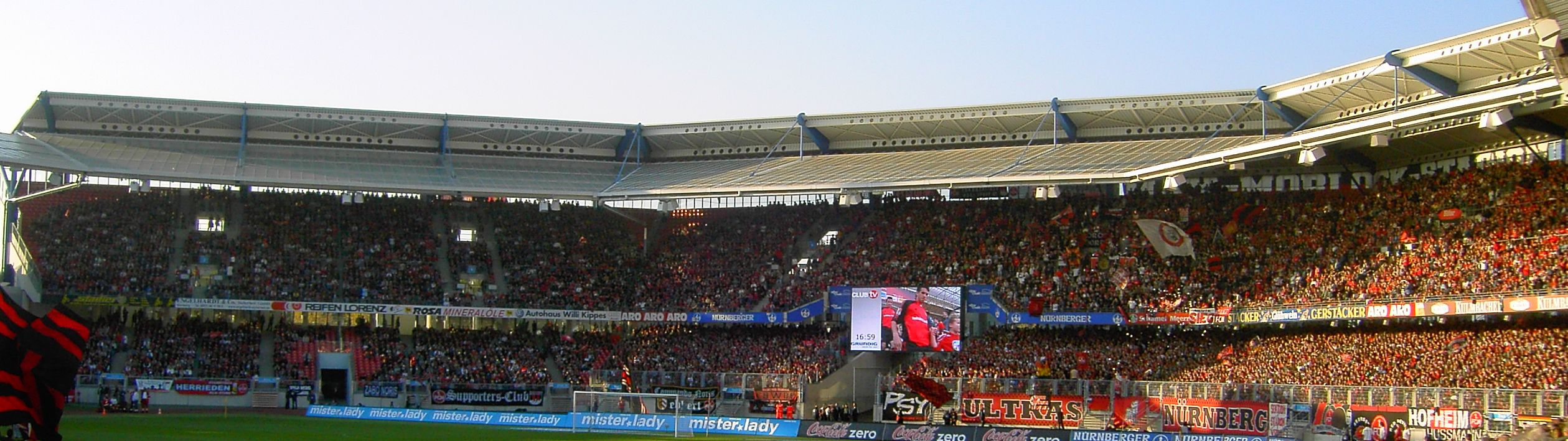 Image of easyCredit-Stadion (Nuremberg, Germany)